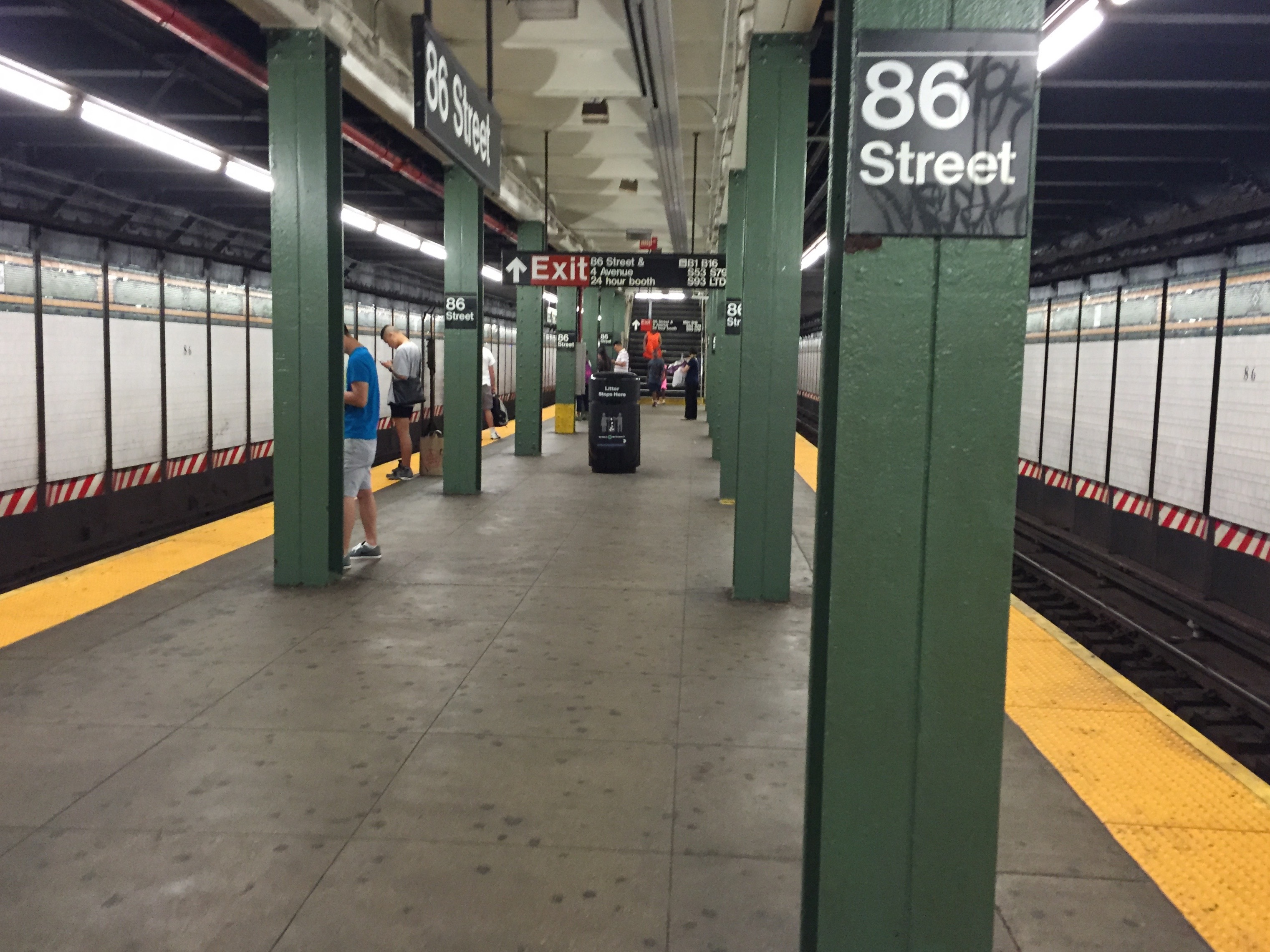 Platform at 86th Street - 4th Avenue on the R.